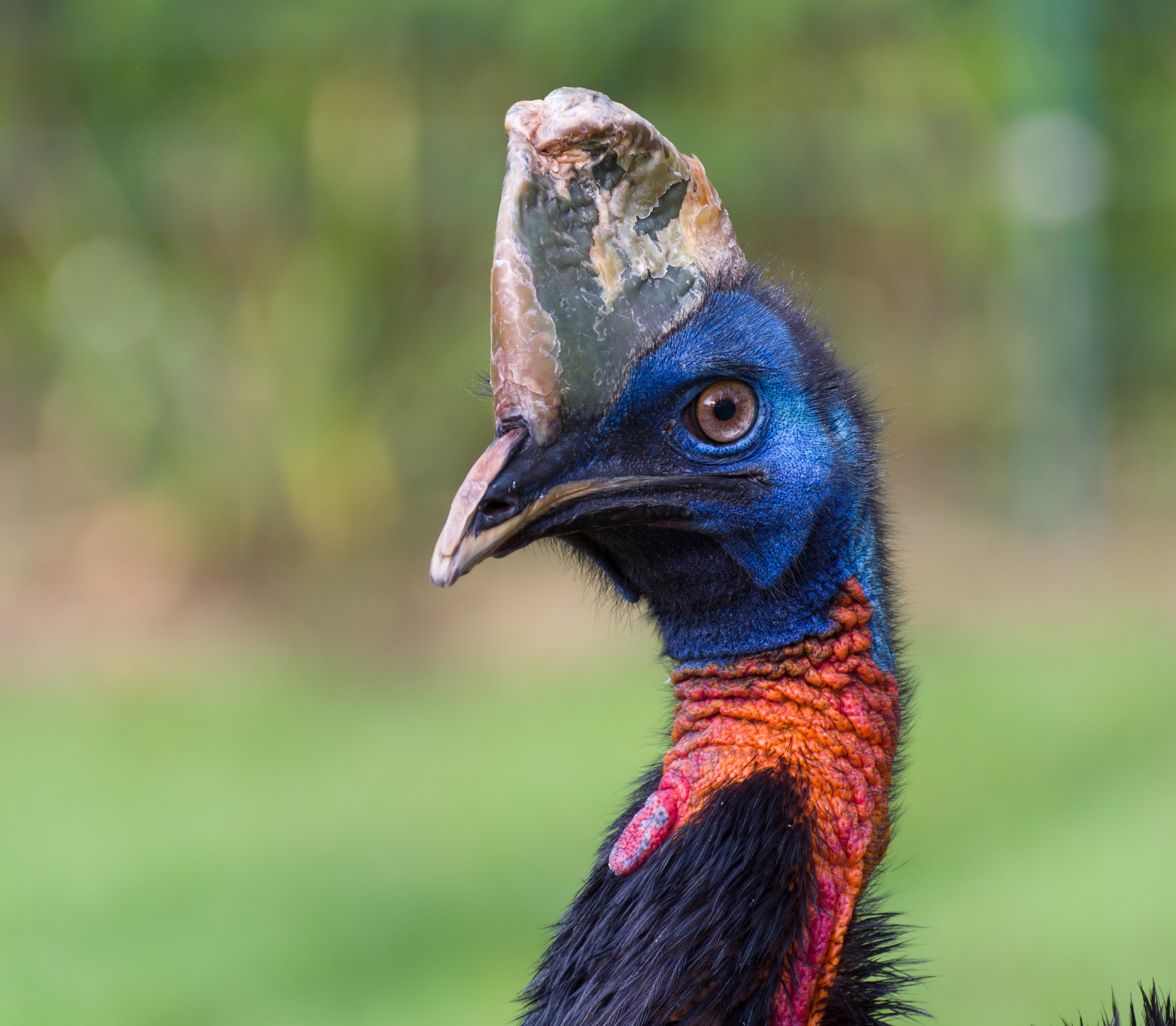 Northern cassowary (Casuarius unappendiculatus) in Weltvogelpark Walsrode